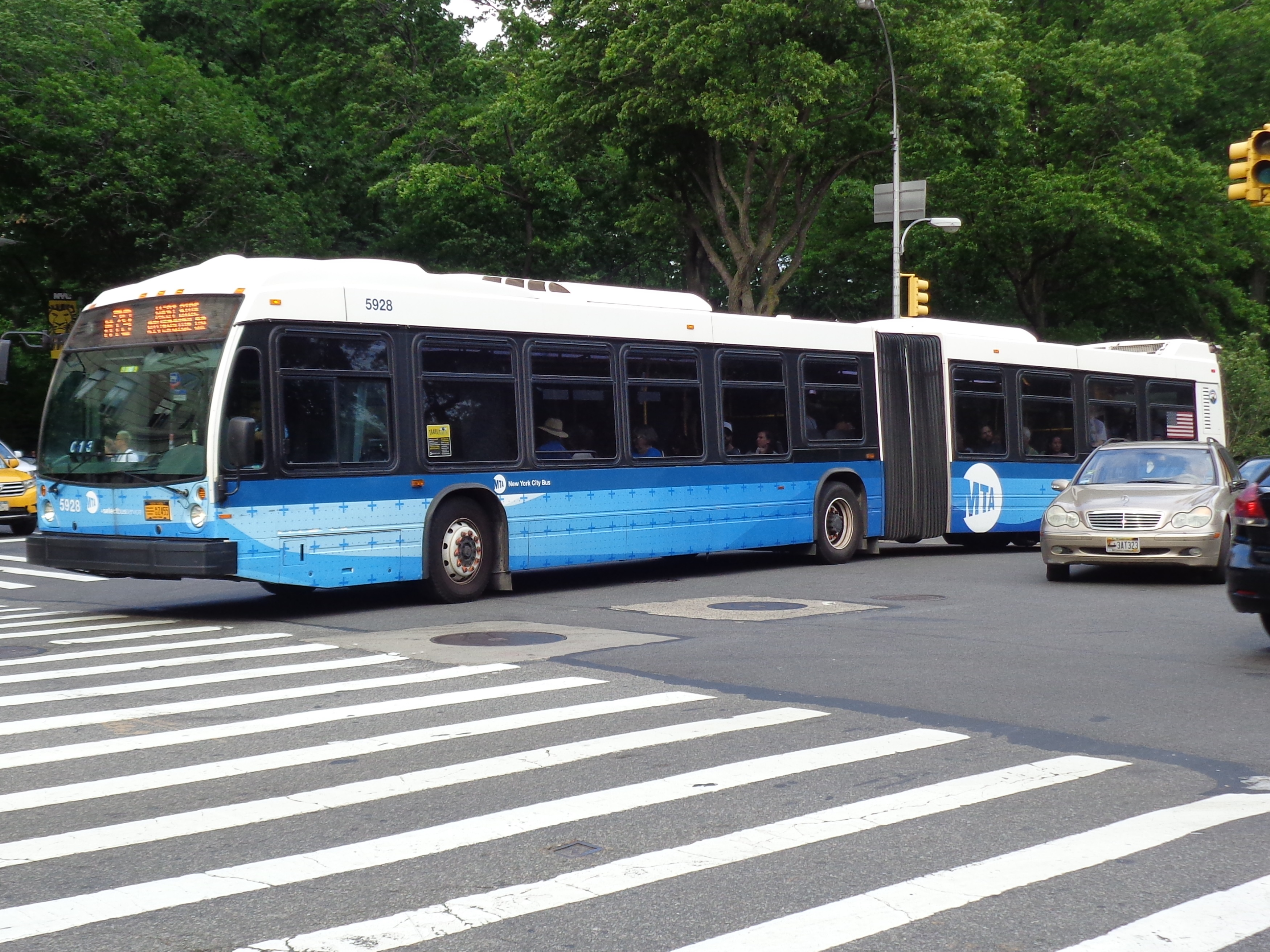 A 79th Street Boat Basin-bound M79 SBS bus exiting the 79th Street Transverse, at 81st Street and Central Park West near the American Museum of Natural History in the Upper West Side, Manhattan.